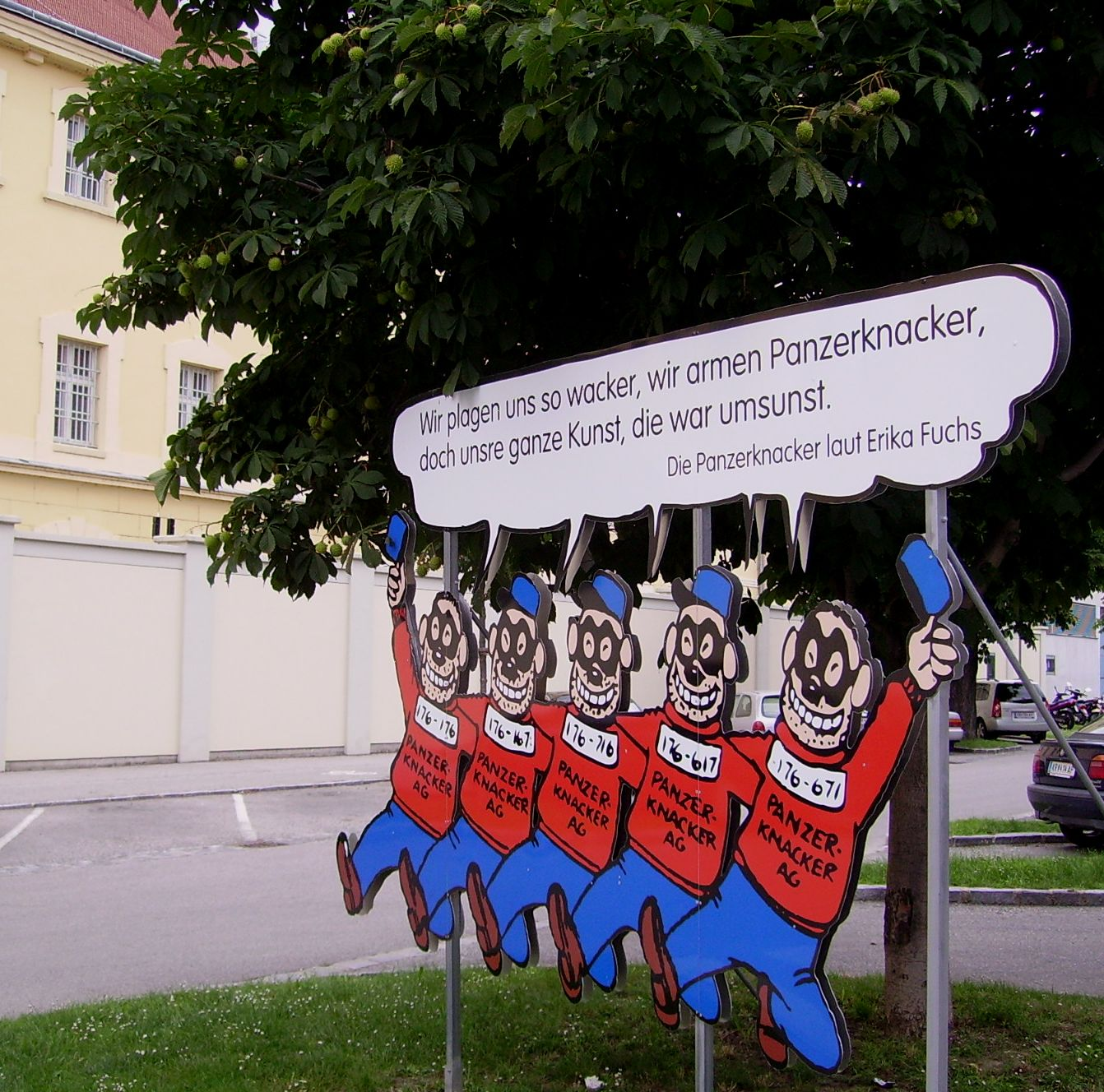 Krems an der Donau, Austria